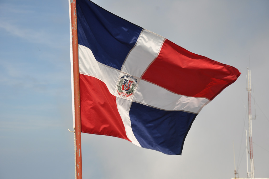 Dominican Republic, Rep�blica Dominicana Used@ Same one, different blog and language Yep, one more Why not post a French one to